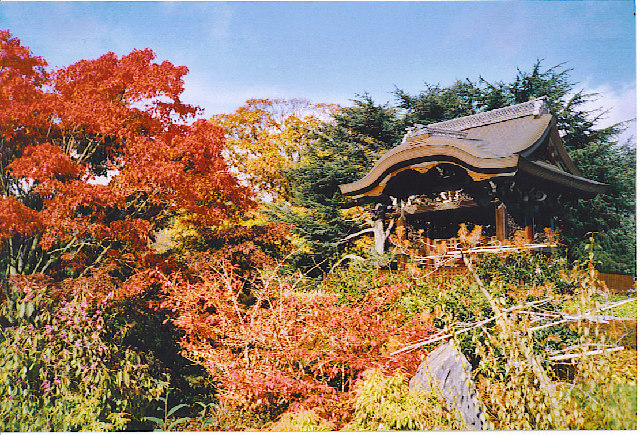 Autumn in the Japanese Garden, Kew. Japanese maples and pagoda make up a distinctly non-London scene in Kew Gardens.